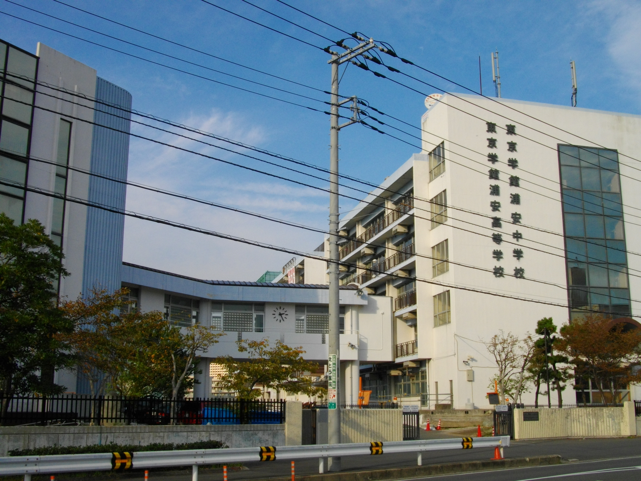 Tokyo Gakkan Urayasu Junior & Senior High School